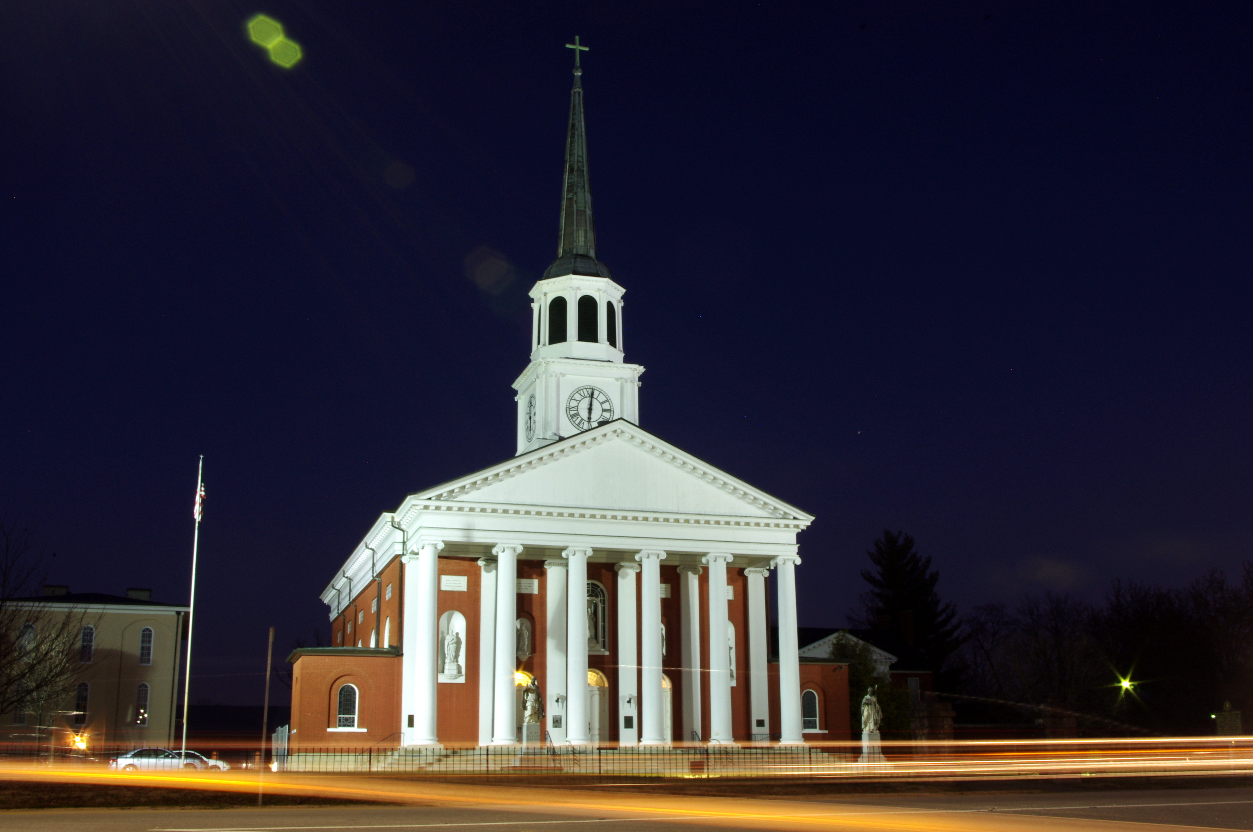 Basilica of Saint Joseph Proto-Cathedral (exterior) - photo taken after dusk at the corner of West Stephen Foster Avenue and Cathedral Manor